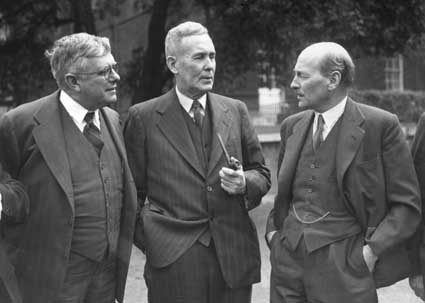 Australian Labor Party leaders Ben Chifley (middle) and Herbert Evatt (left) with British Prime Minister Clement Attlee (right) at the Dominion and British Leaders Conference, London, en:1946. Image number M1409:31